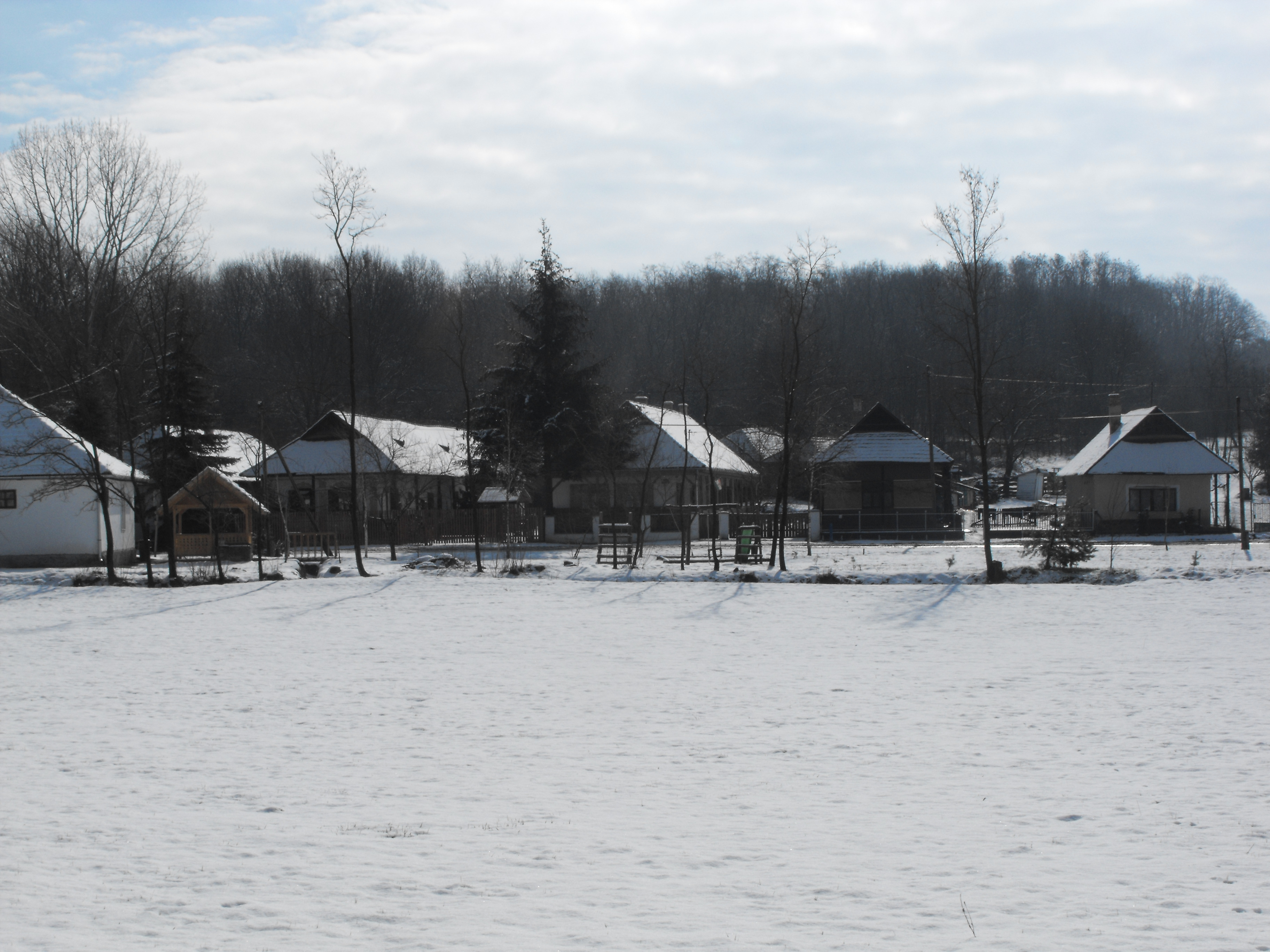 Houses in Keresztete in the Cserehat mountains of northern Hungary